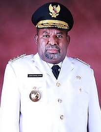 Official portrait of Lukas Enembe, governor of Papua